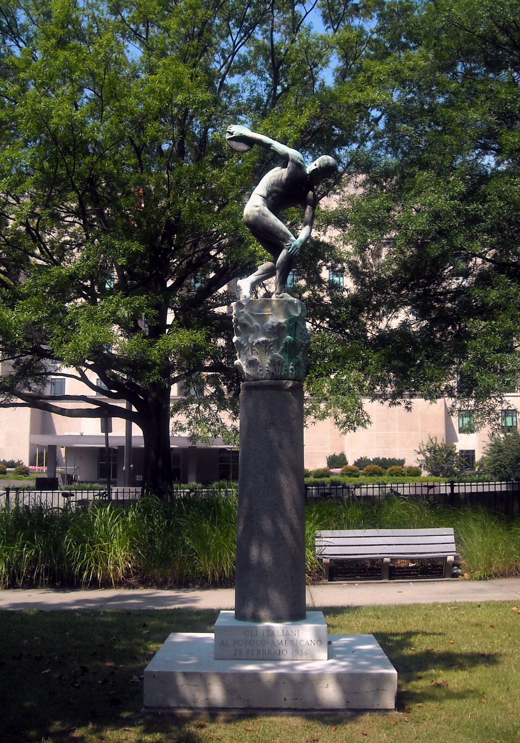 Discus Thrower, a replica of Discobolus, located at 22nd Street and Virginia Avenue, NW in the Foggy Bottom neighborhood of Washington, D.C., United States. The sculpture was a gift from the Italian government for U.S. assistance in recovering pieces of art that were stolen during World War II. The United States Department of State headquarters is visible in the background.